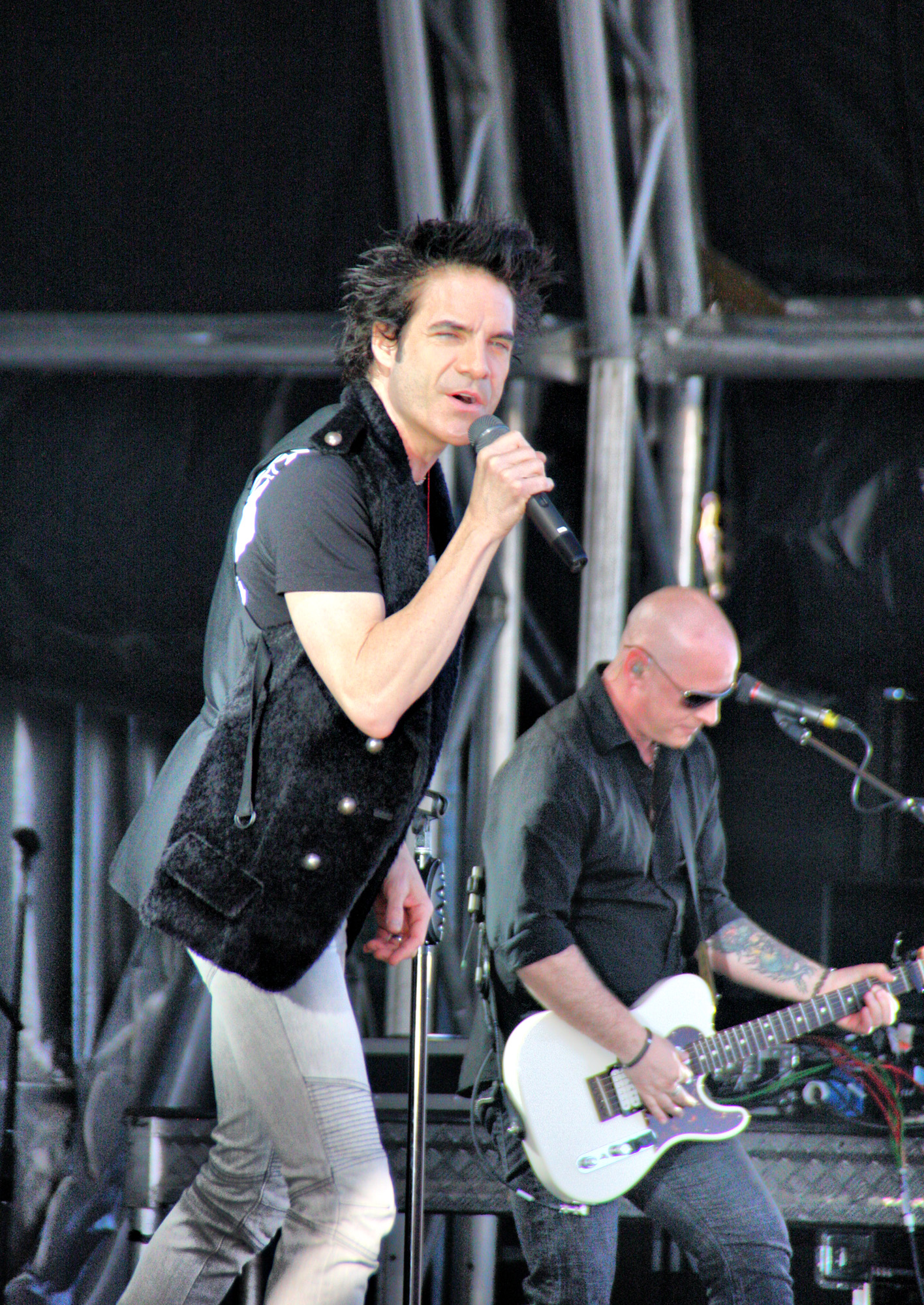 INXS TO ROCK THE HUNTER! With Train, The Baby Animals and Sean Kelly Bimbadgen Estate – Saturday January 29 2011 An exciting new chapter in the illustrious career of INXS is about to begin, with the announcement of their first Australian tour in four years exclusively for a day on the green to support their eagerly-awaited new album. The band with special guest JD Fortune will play their only Australian shows at wineries nationally in January/February next year, including Bimbadgen Estate, Hunter Valley on Saturday January 29. Joining INXS will be US Grammy-Award winners TRAIN, whose blues and folk-infused rock has propelled them to the top of the charts around the world. The reformed Baby Animals and ARIA Hall of Fame inductee Sean Kelly (from Models) complete this stellar line-up. For more than 30 years INXS have maintained their position as a great and consummate global rock band. With more than 35 million album sold, an enviable reputation for live performance and a collection of master hits that have stood the test of time, INXS remain one of our most-loved and respected treasures. The band’s upcoming album heralds a new beginning with guest vocalists joining the five band members to rework classic INXS songs into new incarnations. The project has been in progress for the past year, with Ben Harper’s version of ‘Never Tear Us Apart’ released last month as the first tantalising taste of what is to come. Tracks have been recorded by Rob Thomas (Matchbox 20) Pat Monahan (Train), Kav Temperley (Eskimo Joe), hip hop star Tricky and JD Fortune, with more to be announced. The album is a unique, challenging and inspiring way to bring classic INXS songs into the modern era and to a whole new audience. “INXS is really excited to be playing in some great locations around Australia, and to our fans,” Andrew Farriss of INXS said. “Also having Train, The Baby Animals and Sean Kelly on the same stages we will be playing to their fans as well as ours – so it